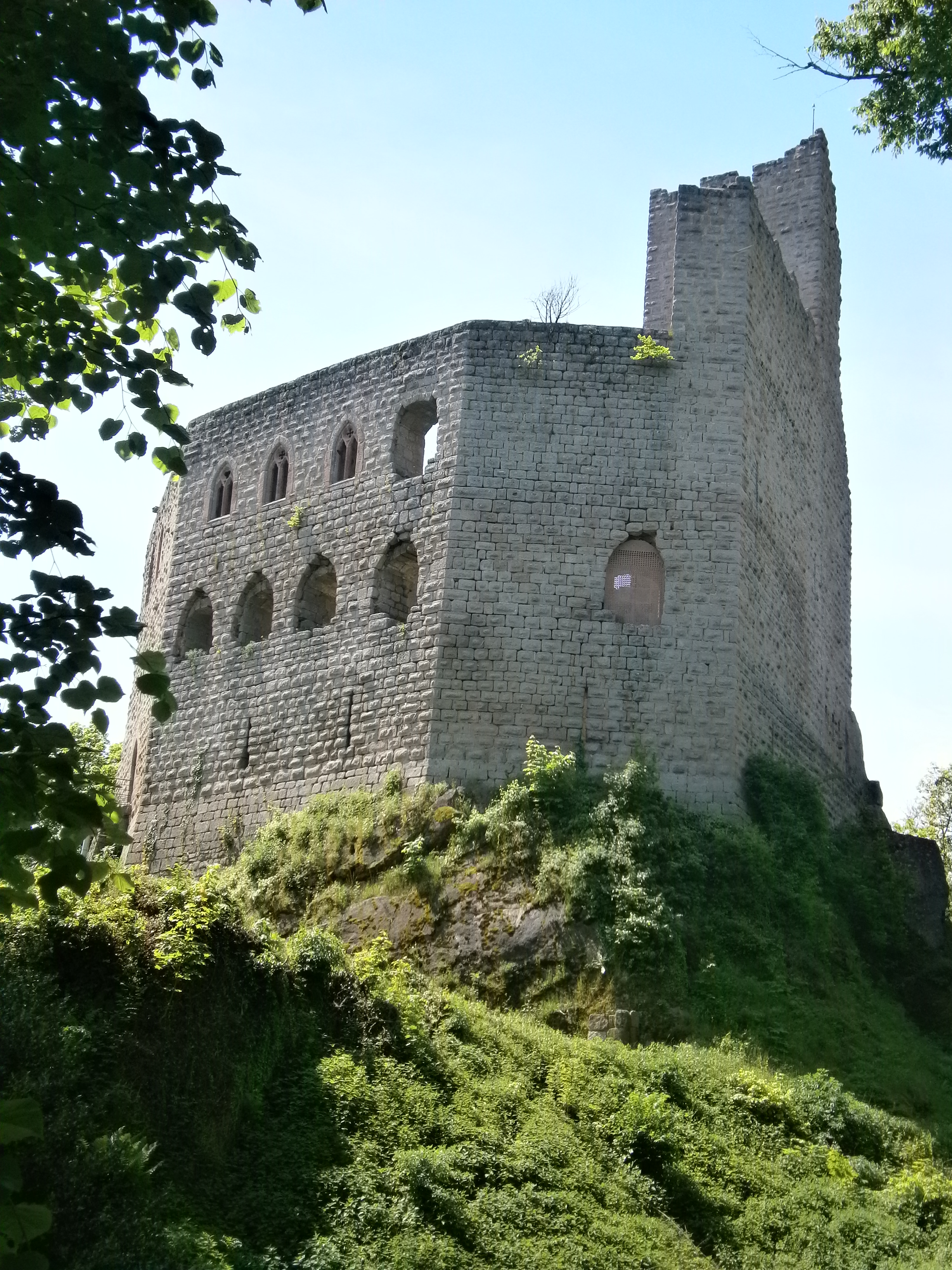 Spesbourg Castle (Alsace)